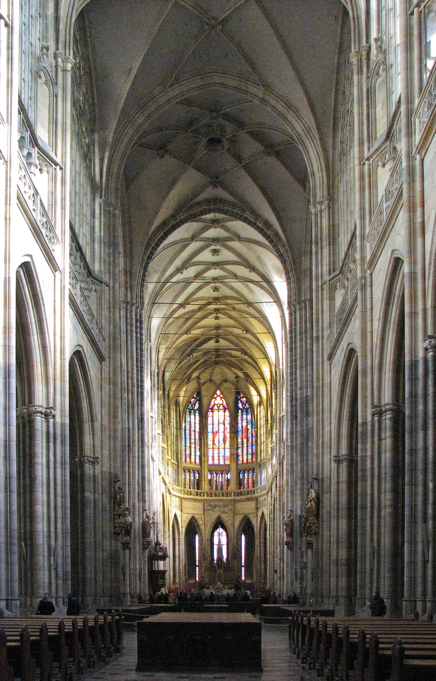 Interior of St. Vitus Cathedral in Prague, Czezh Republic